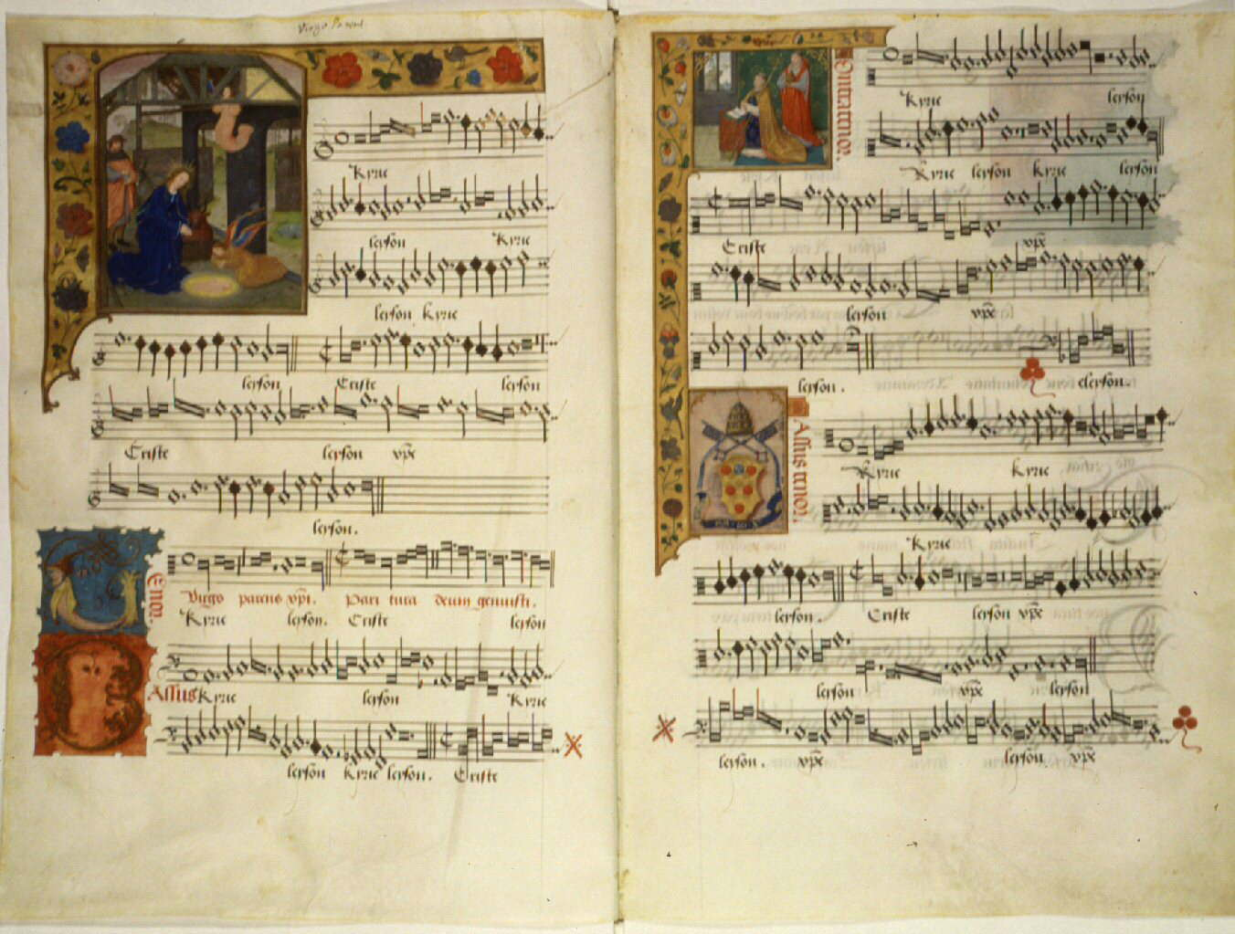 Manuscript page with the five-voice "Kyrie" of the Missa Virgo Parens Christi by Jacques Barbireau (ca.1420-1491). Early 16th century manuscript (Capp. Sist. 160 fols. 2 verso-3 recto music25 NB.06), now held in the Vatican, probably produced at the court of Margaret of Austria in Flanders, dedicated as a gift to Pope Leo X (whose coat of arms is pictured in the middle of the right-hand page.)